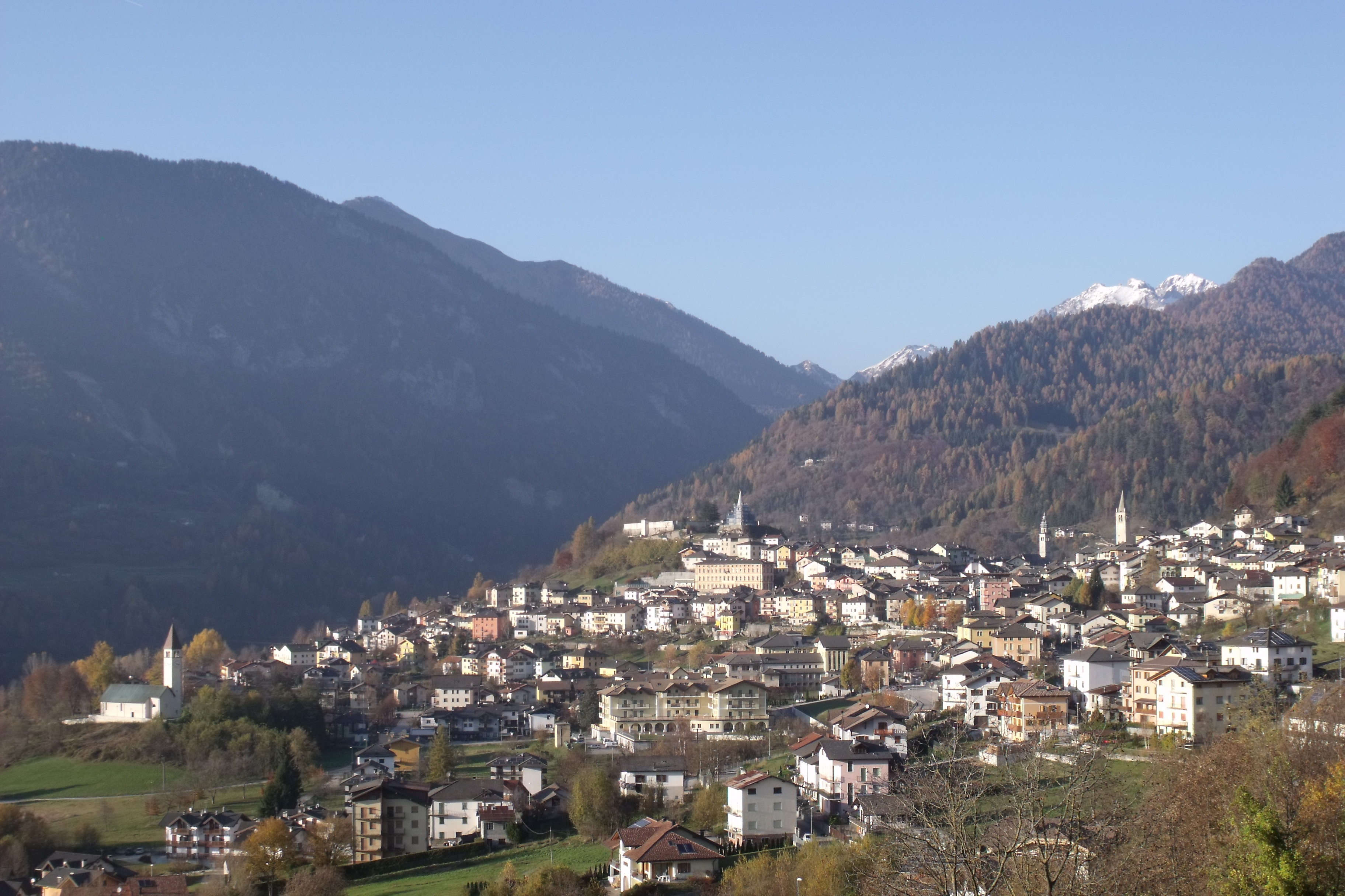 Panorama of Castello Tesino, Province of Trento, Trentino-Alto Adige/Südtirol, Italy